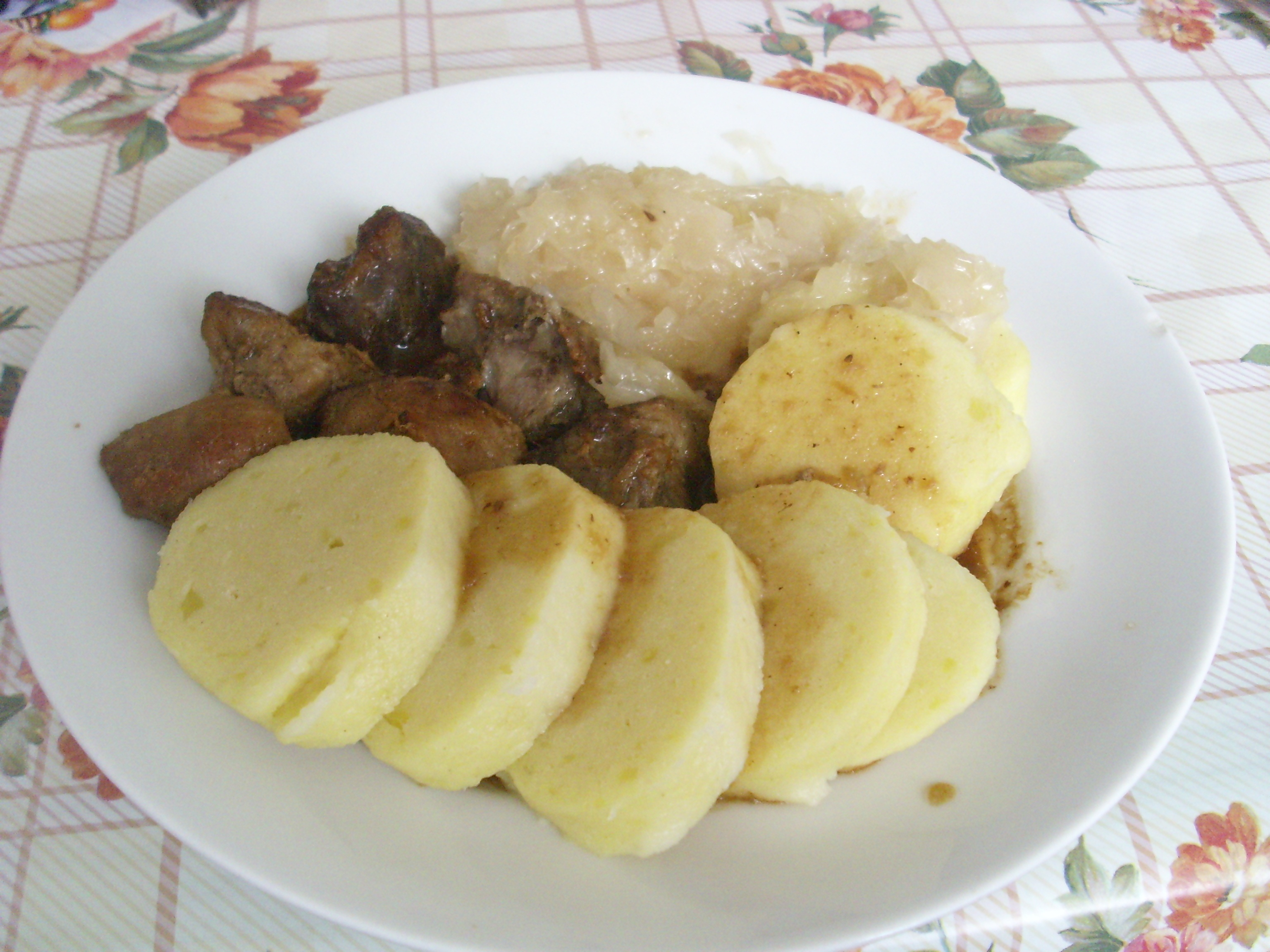 Roast pork with dumplings and cabbage